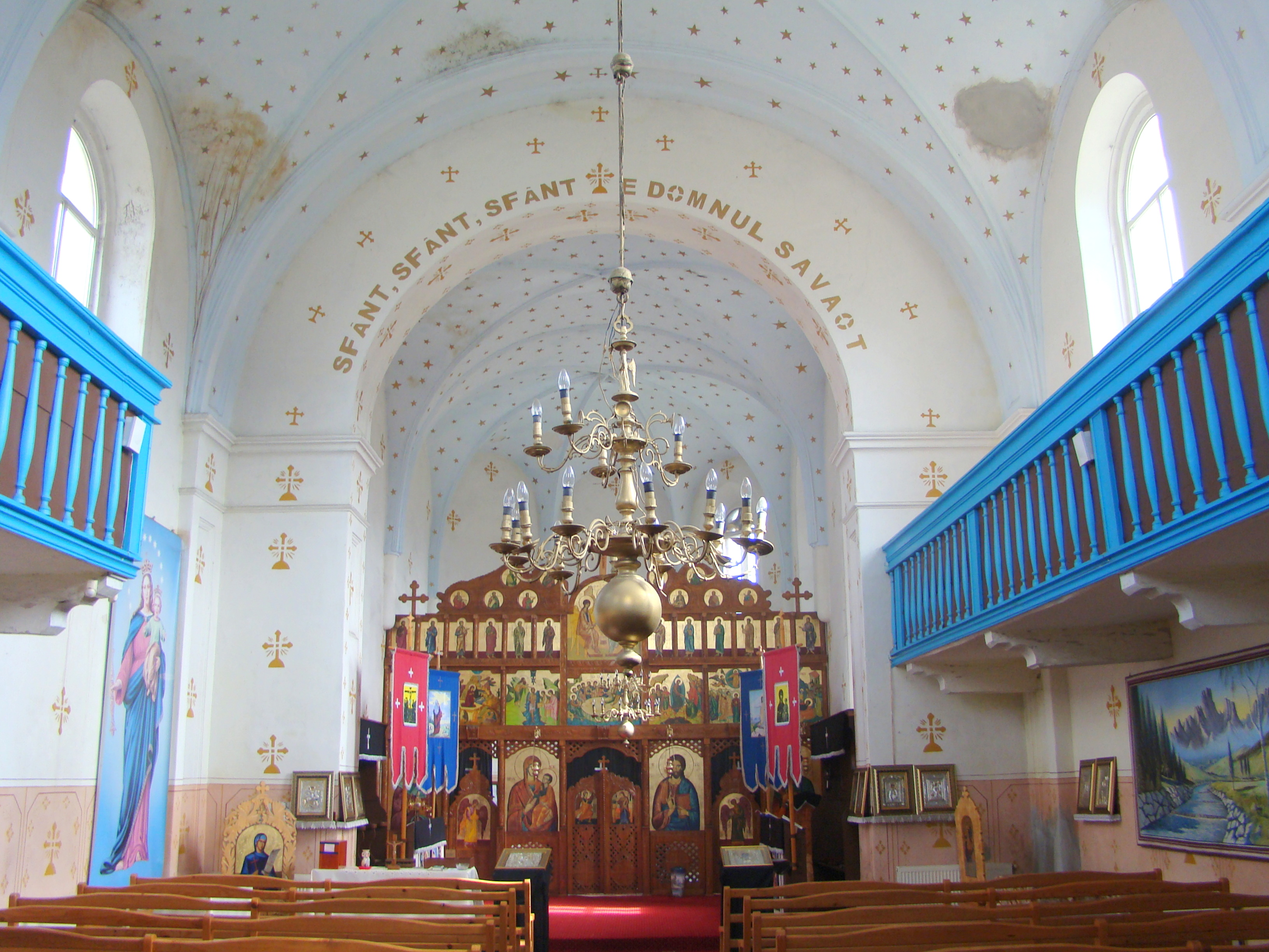 Saint Demetrius church in Crainimăt, Bistrița-Năsăud county, Romania